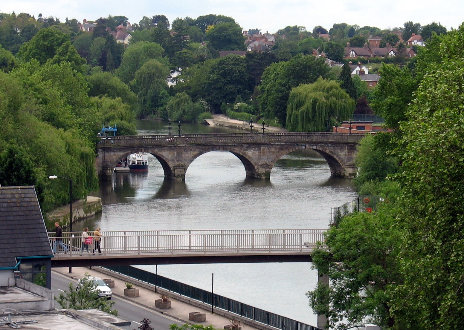 For use in the Bridges section of Shrewsbury article. Shows the Frankwell footbridge in foreground and Welsh Bridge in background. Taken on 26 May 2007 by Chris Bayley.